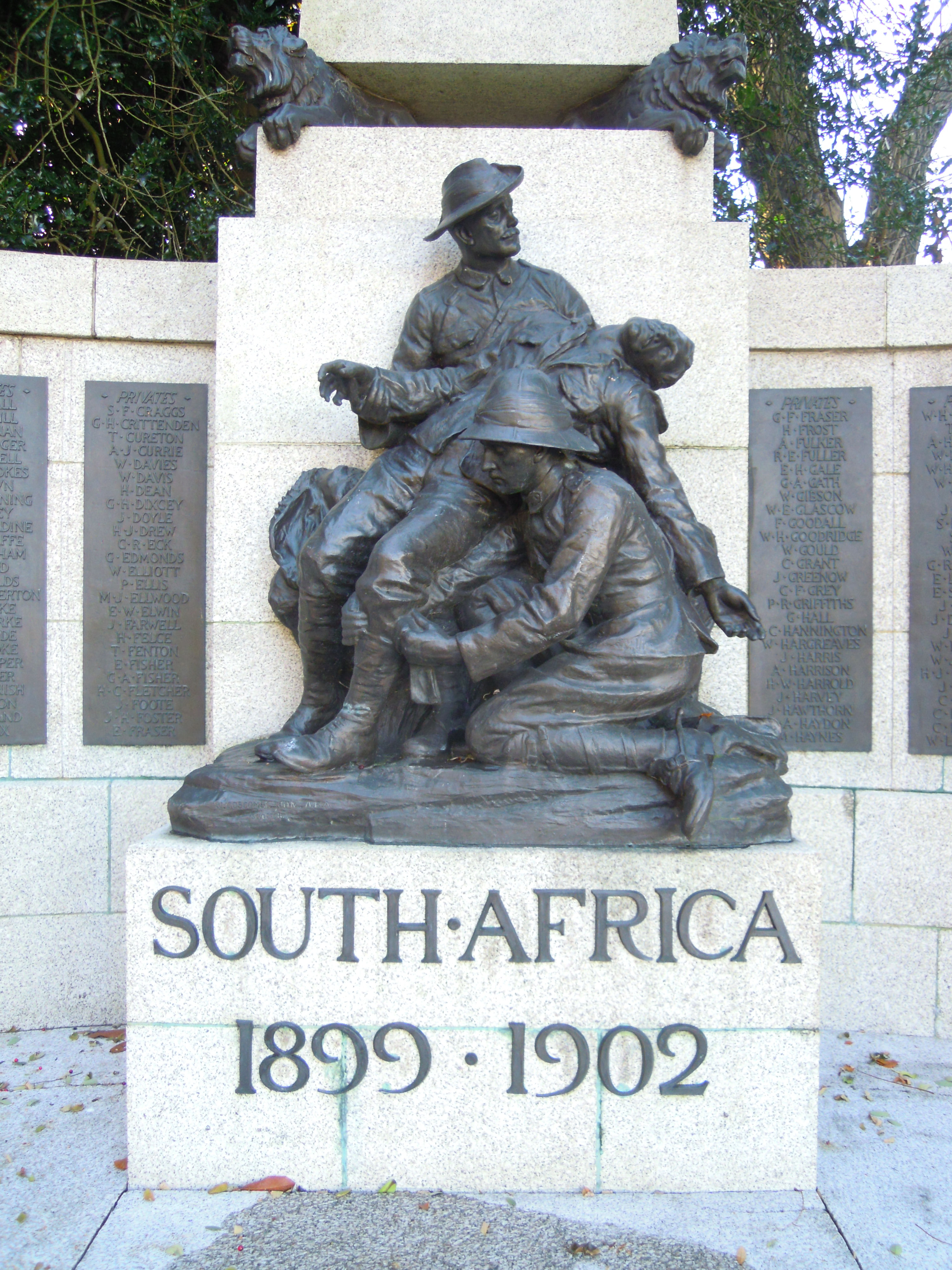 The Monumental Group by Goscombe John on the Boer War RAMC Corps Memorial at the top of Gun Hill in Aldershot in Hampshire. The group was cast by A.B. Burton at his Thames Ditton Foundry